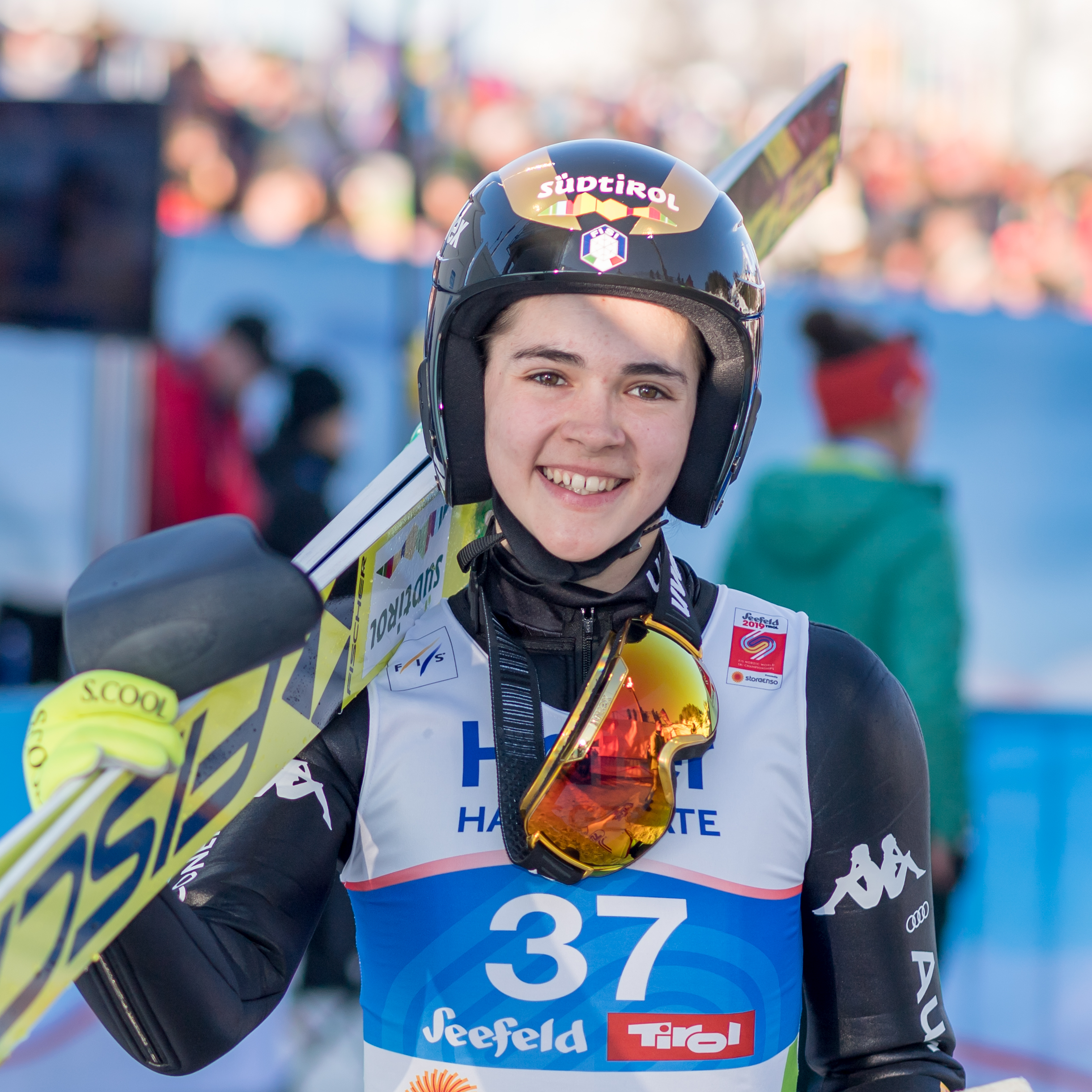 Seefeld, February 27, 2019: FIS Nordic World Ski Championships, Ski Jumping Ladies HS 109.